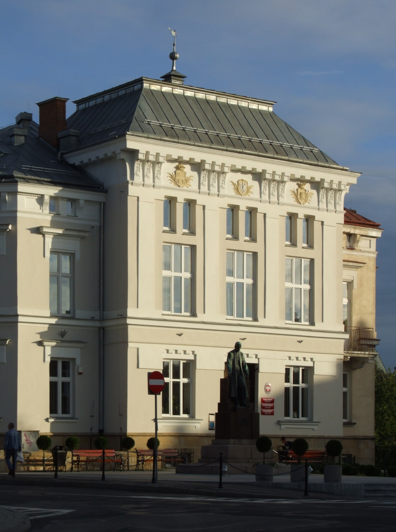 City Hall in Krosno